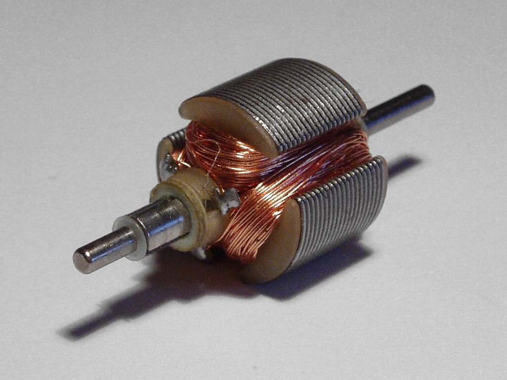 Rotor from a small 3V DC electric motor. This motor has 3 coils and the commutator can be seen at the near end.